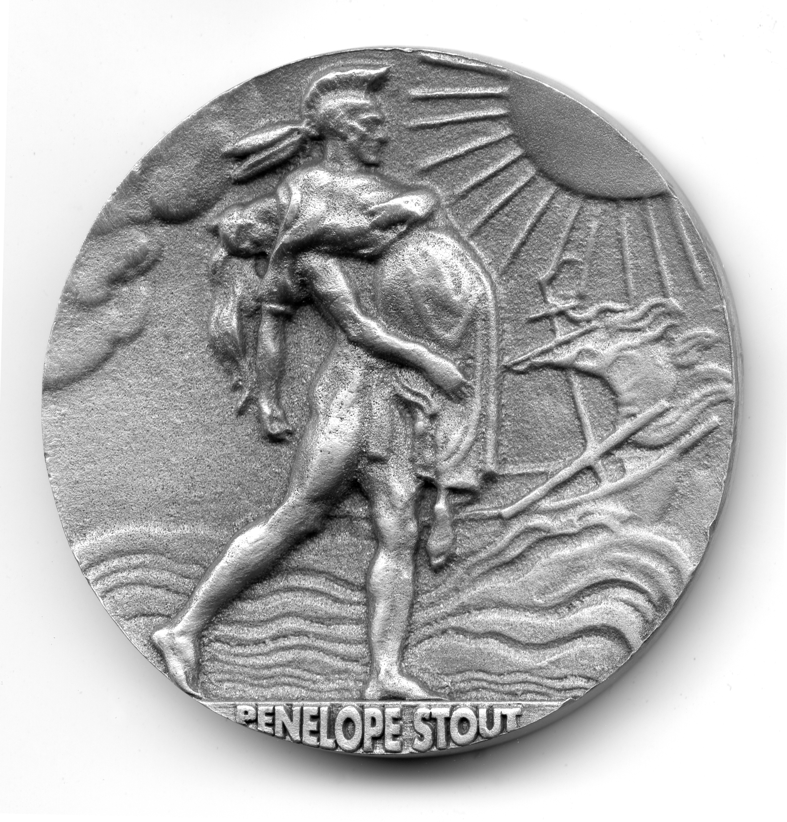 Penelope VanPrincis Stout Commemorative Coin - Recto - depicting the scene of Penelope's first rescue by an old indian chief after surviving a shipwreck and the ensuing attack on the beach by the indigenous inhabitants after being abandoned by their fellow shipmates.